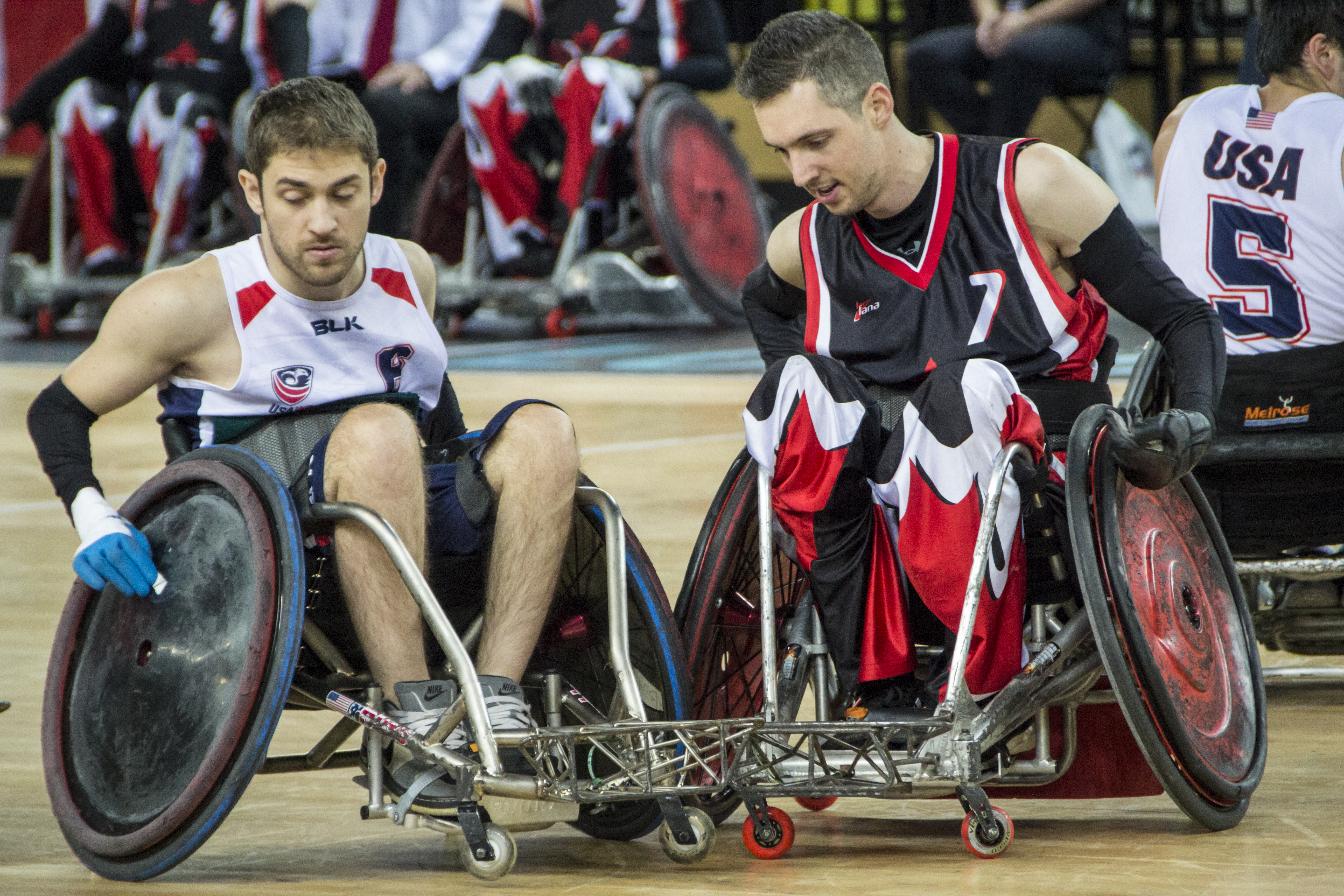 The rugby game Classic Meiji University versus Waseda University at 56th All-Japan University Rugby Championship - Final